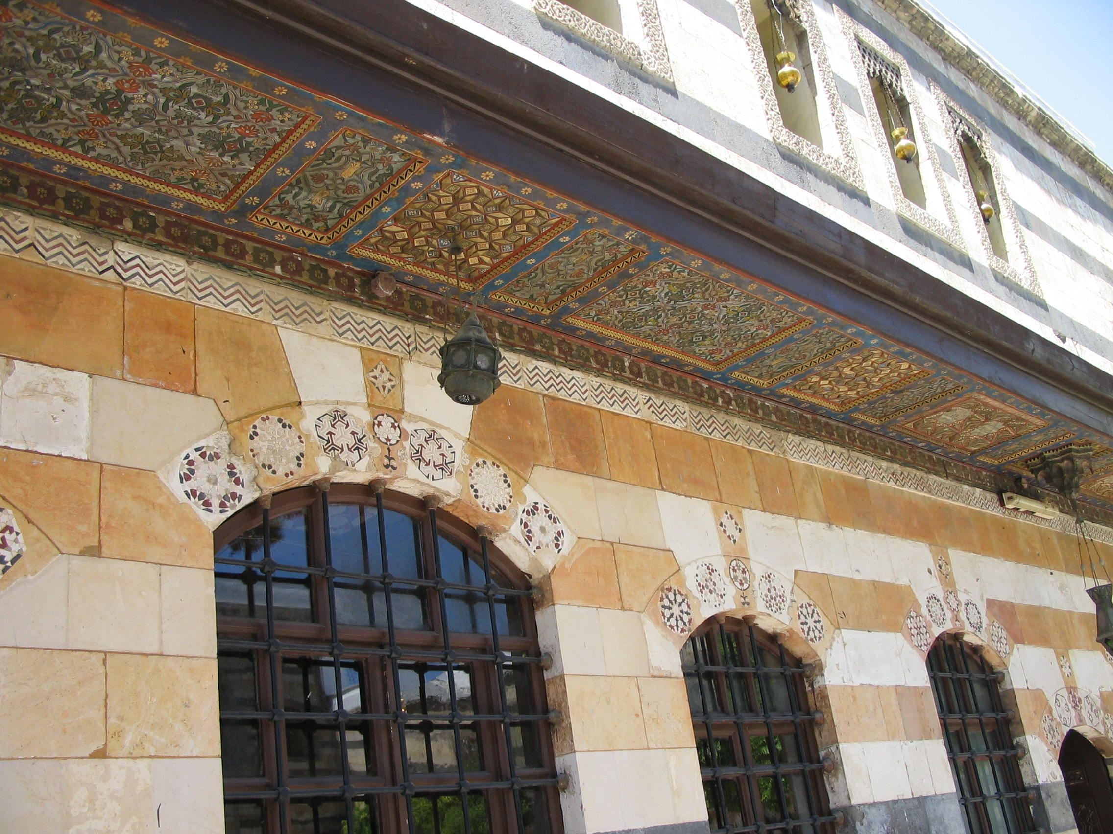 A view of part of the walls and ceiling of the Azem Palace in Damascus